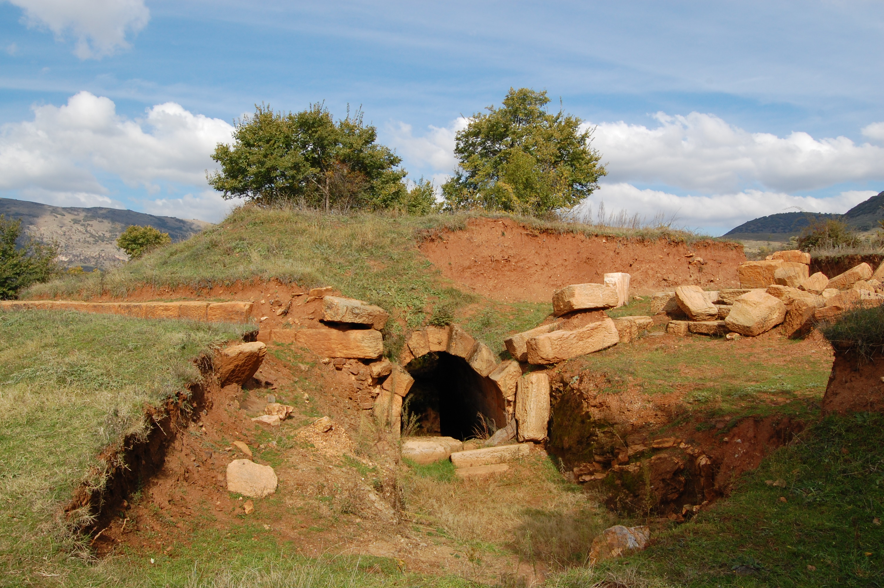 Ancient Macedonian tomb near Bonče, Prilep region, Macedonia